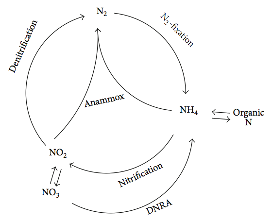 The biological N cycle. DNRA, dissimilatory nitrate reduction to ammonium.